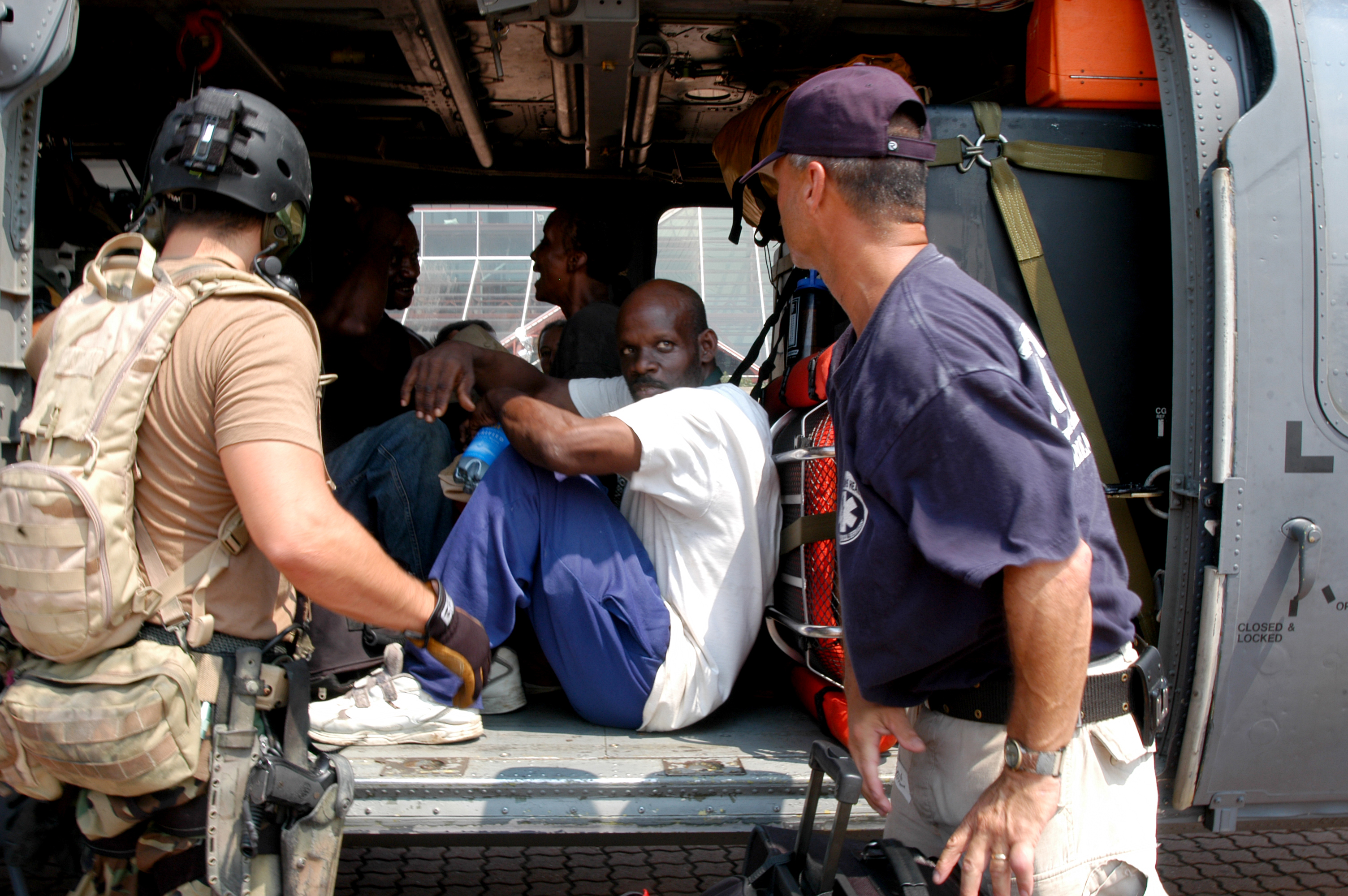 New Orleans, September 5, 2005 - A Disaster Medical Assistance Team member (left) assures a rescued man that the trip to the airport will be safe. Thousands of people are airlifted from the Ernest N. Morial Convention Center pickup site to the New Orleans Airport every day as New Orleans continues to be evacuated. Photo by Win Henderson / FEMA photo.